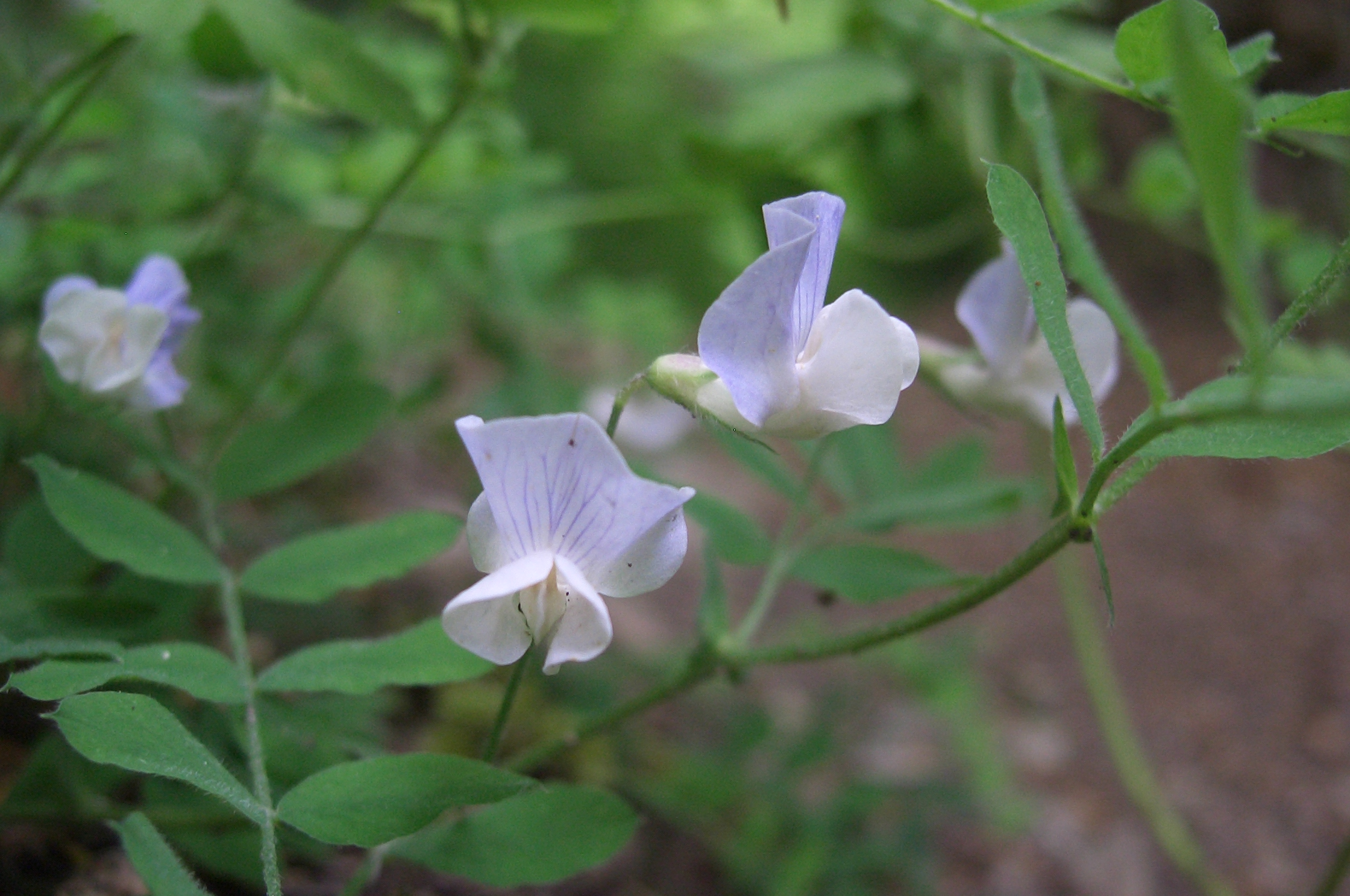 Torrey's peavine (Lathyrus torreyi) in bloom, Pierce County, Washington.